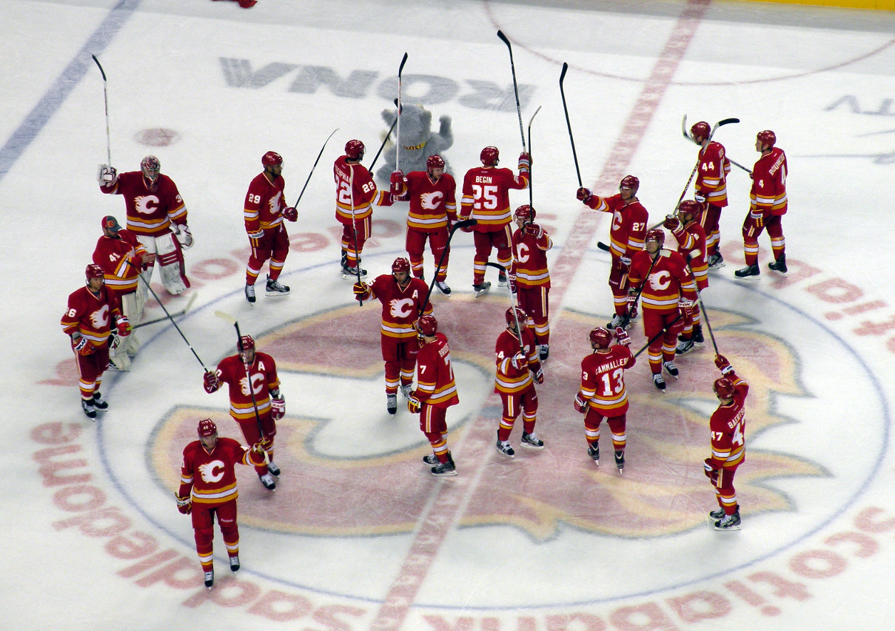 The Calgary Flames salute their fans following a 3–1 victory over the Minnesota Wild on February 23, 2013.